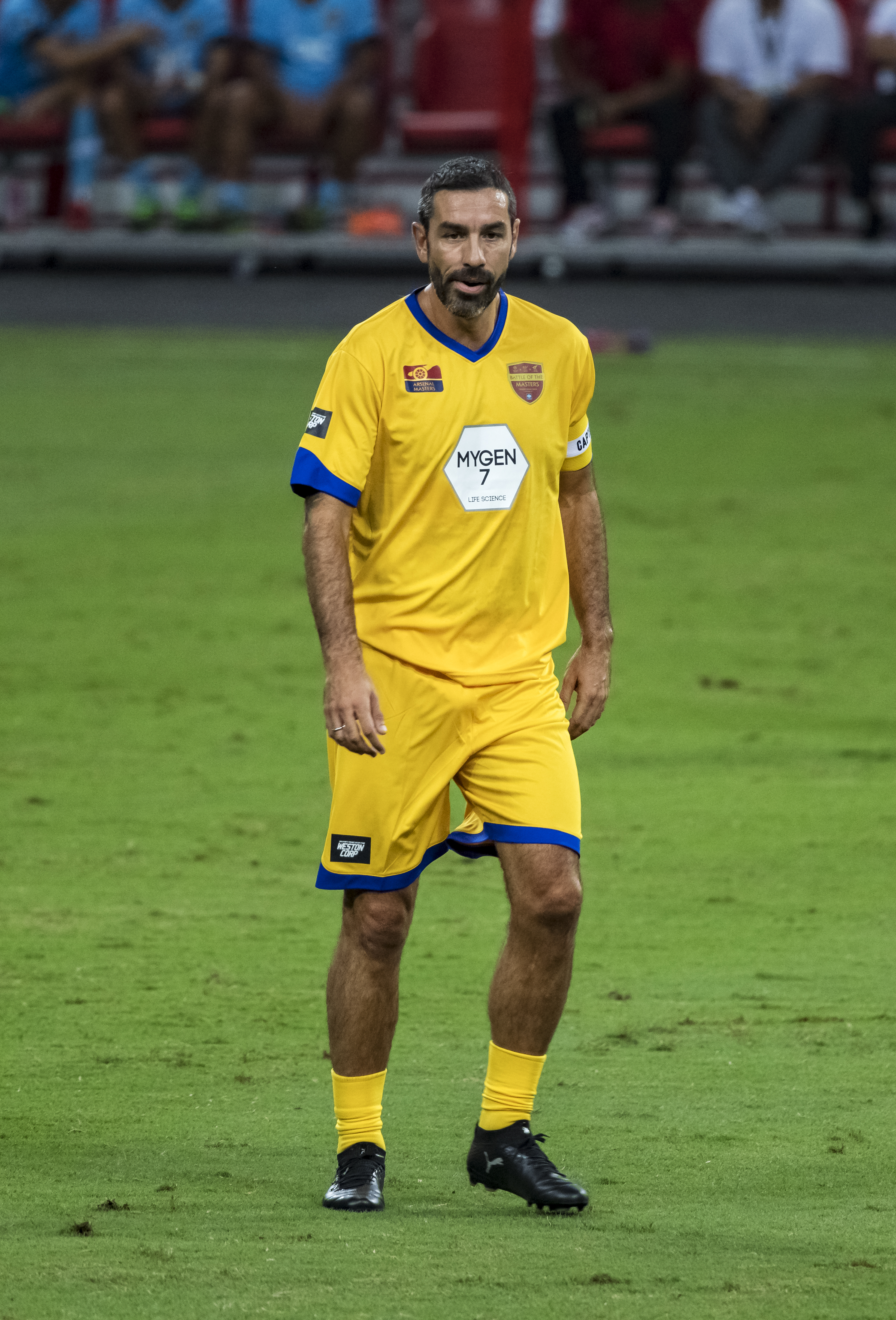 Robert Pirès arsenal masters singapore national stadium 2017